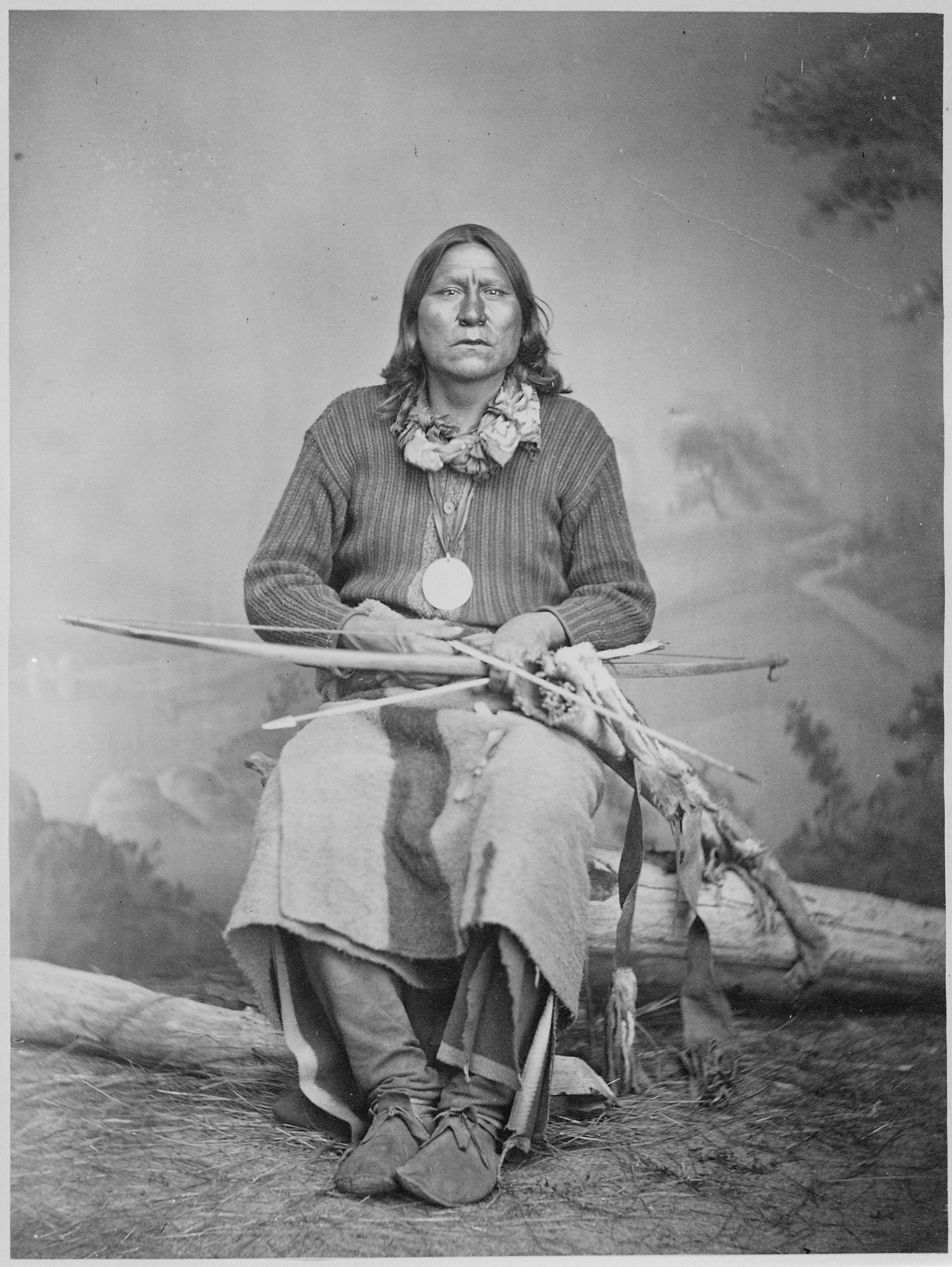 Scope and content: Sa-tan-ta, celebrated Chief of the Kiowas (pencil notation reads "Wm. S. Soule")